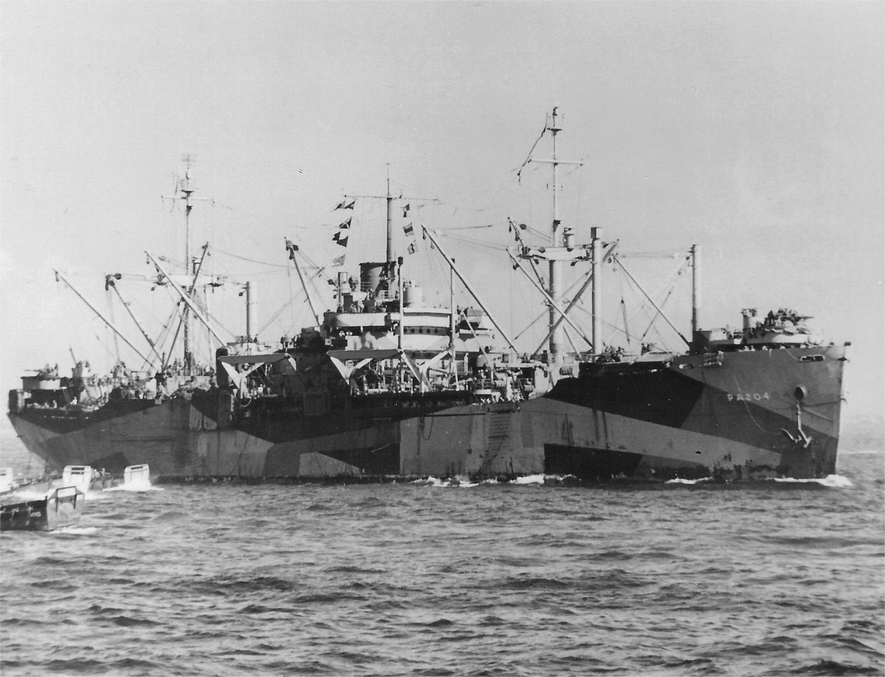 The U.S. Navy attack transport USS Sarasota (APA-204) at Lingayen Gulf, 8 January 1945.